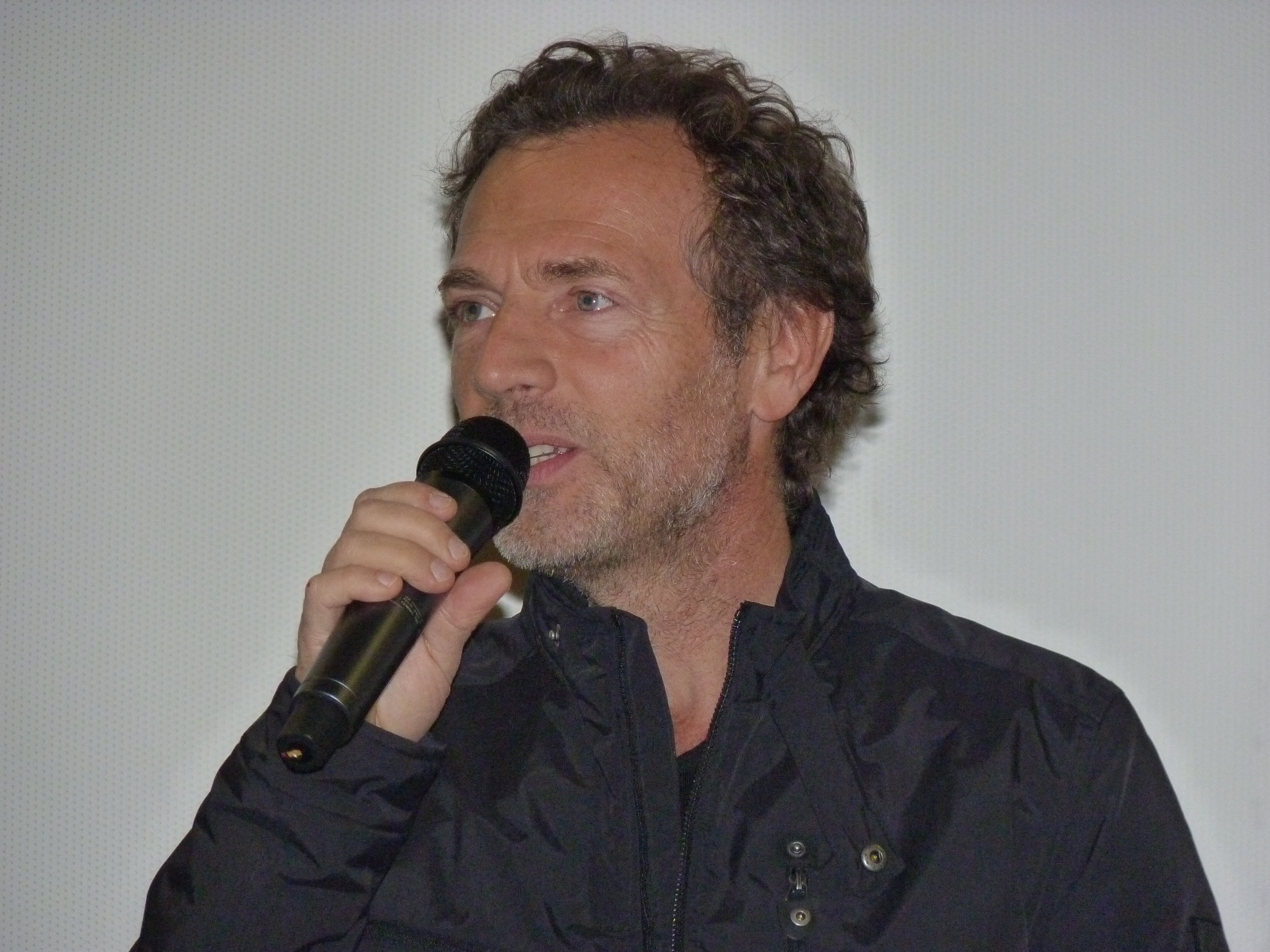 Stéphane Freiss at the 25th Cinematic Encounters of Cannes.